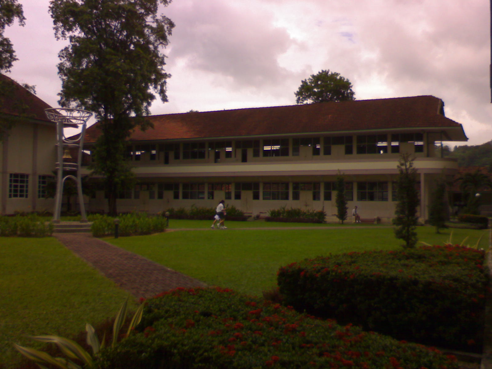 This is Block E of Chung Ling (National Type) High School.